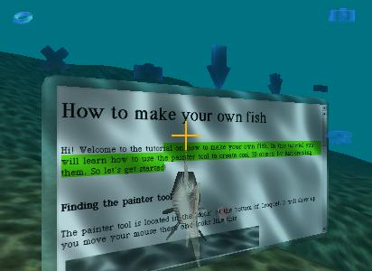 "I made this image myself." --Socinian